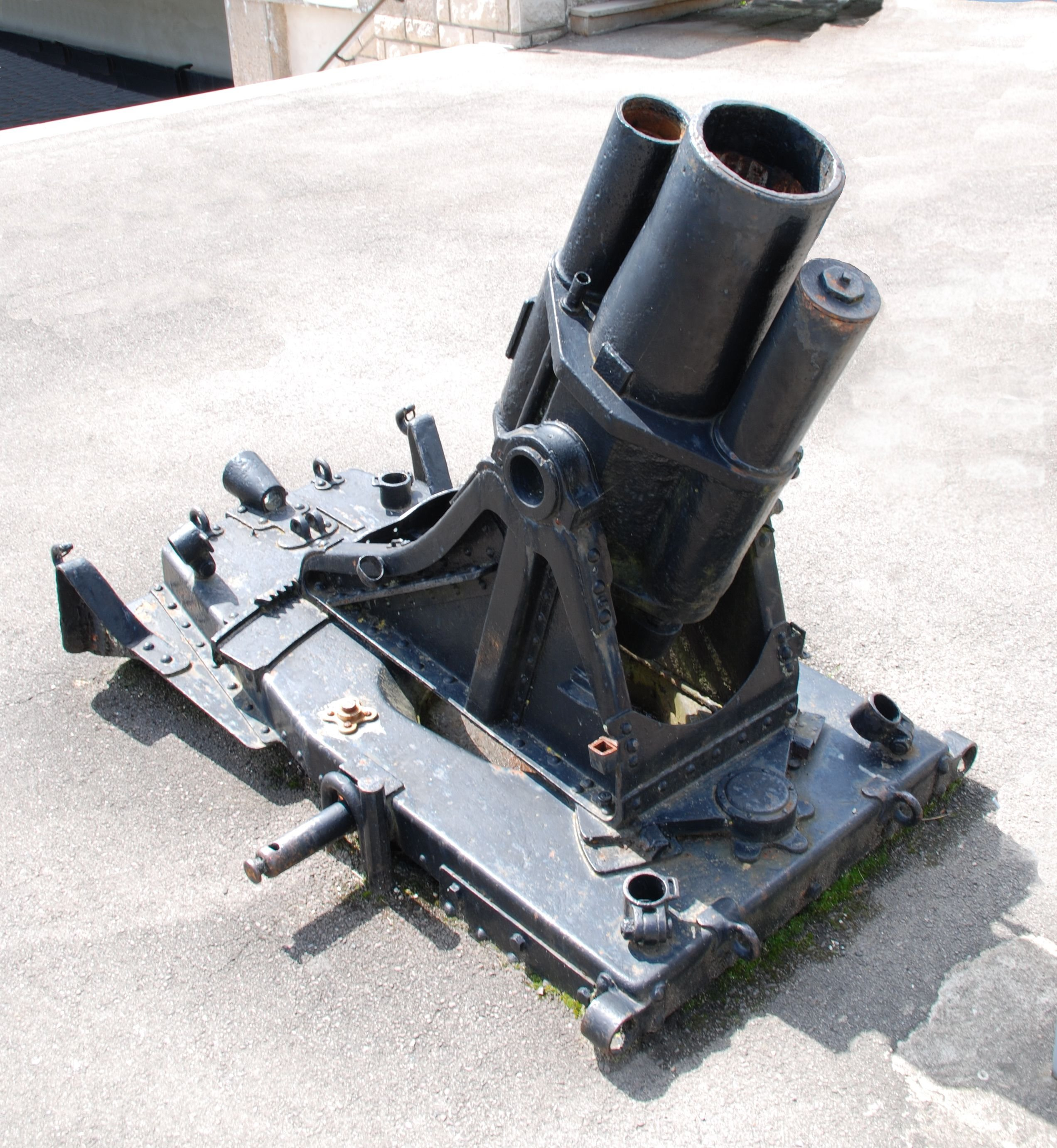 German trench mortar (Minenwerfer) 170 mm n/A (neuer Art) model with long barrel; the Verdun Memorial, Fleury-devant-Douaumont, France